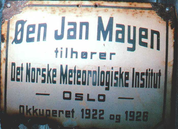 Sign that Jan Mayen is Norwegian